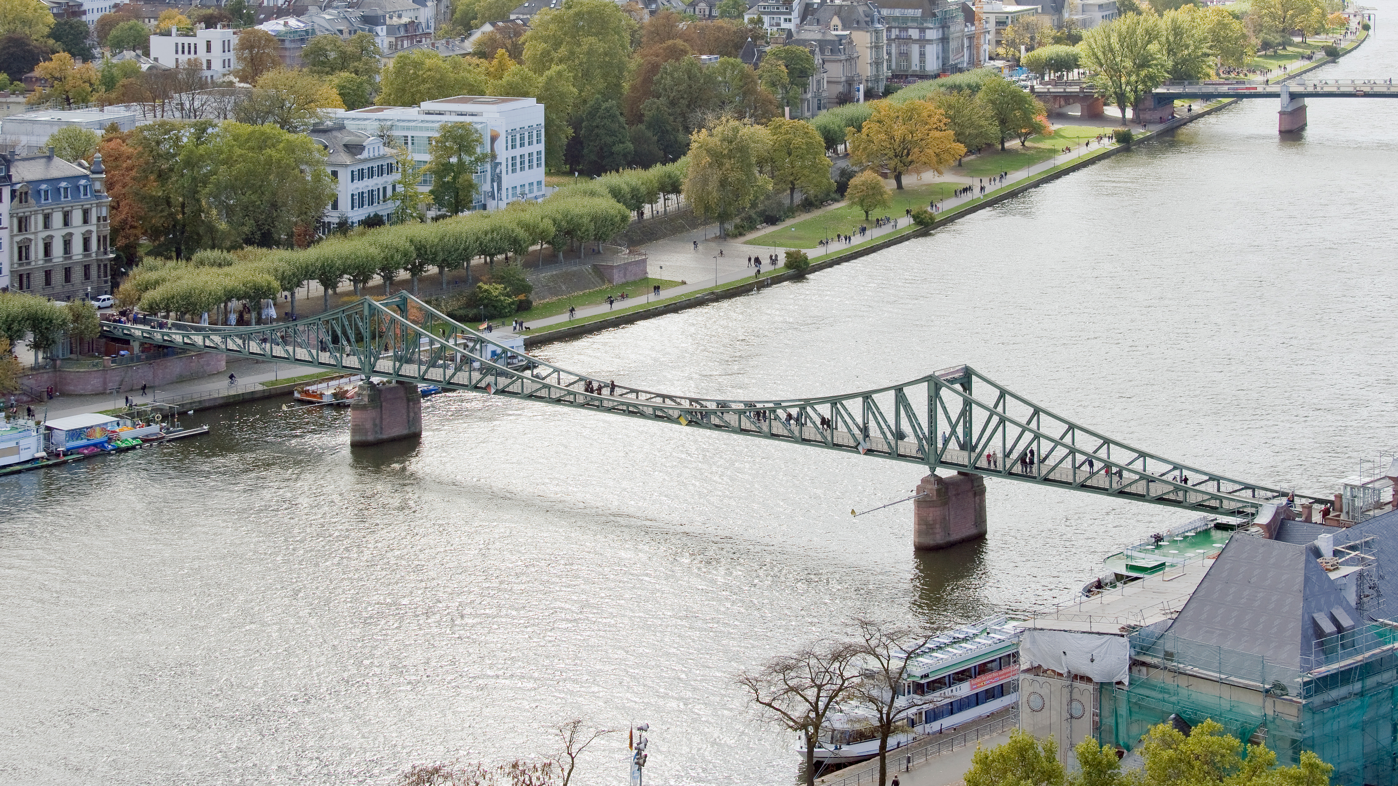 Frankfurt on the Main: Eiserner Steg (Iron Bridge) as seen from the tower of Kaiserdom St. Bartholomaeus (Frankfurt Cathedral)